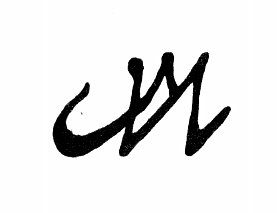 Scan aus Classified Signaturs of Artists This signature is believed to be ineligible for copyright and therefore in the public domain because it falls below the required level of originality for copyright protection both in the United States and in the source country (if different). In this case, the source country (e.g. the country of nationality of the signatory) is believed to be Netherlands. Note that this tag cannot be used on all signatures, as not all signatures are copyright-free. See Commons:When to use the PD-signature tag for an explanation of when the tag may be used.